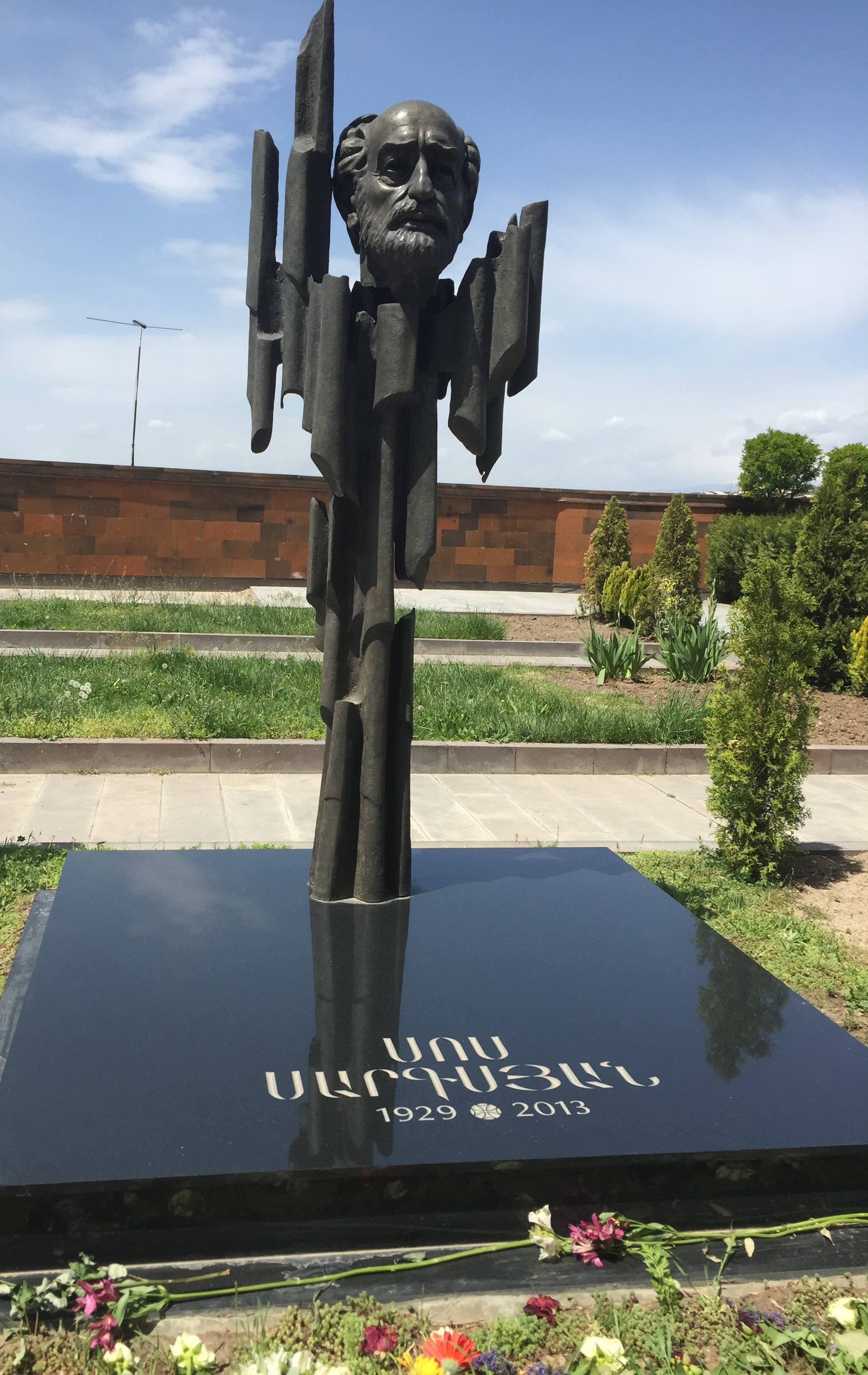 Sos Sargsyan's tomb in Yerevan's Komitas Pantheon (Photo: Rupen Janbazian)